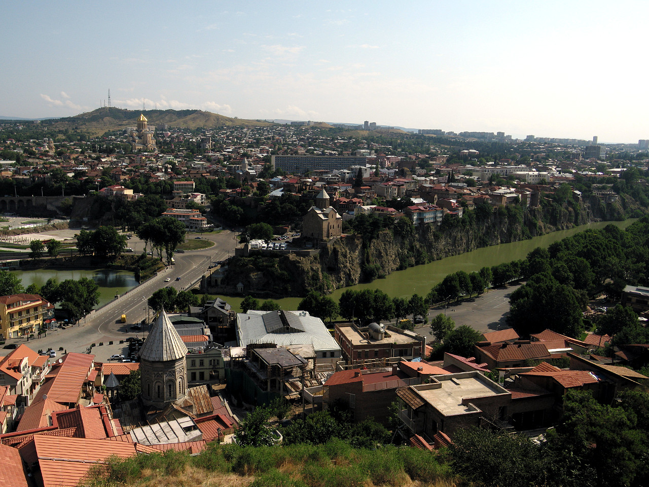 Tbilisi panorama from Narikala fortress